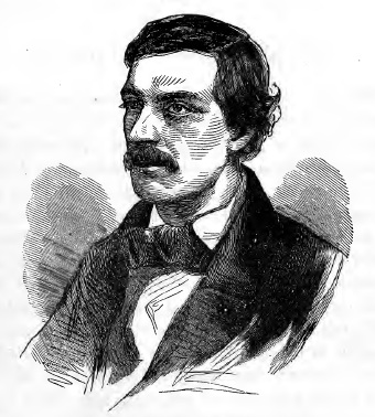 August Sonntag (1832-1860), astronomer of the 2nd Grinnell expedition 1853-1855